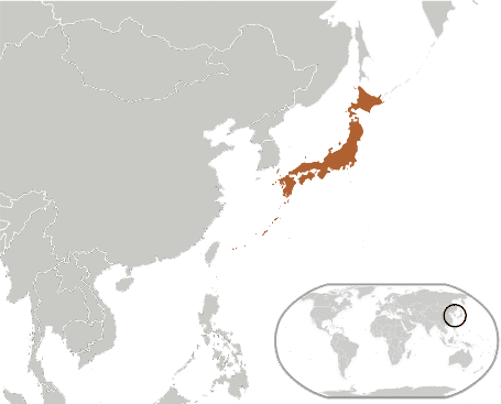 A map of East Asia with Japan highlighted in brown. This is a retouched picture, which means that it has been digitally altered from its original version. Modifications: transparent the background. The original can be viewed here: Japan-location-cia.gif: . Modifications made by Trần Nguyễn Minh Huy.